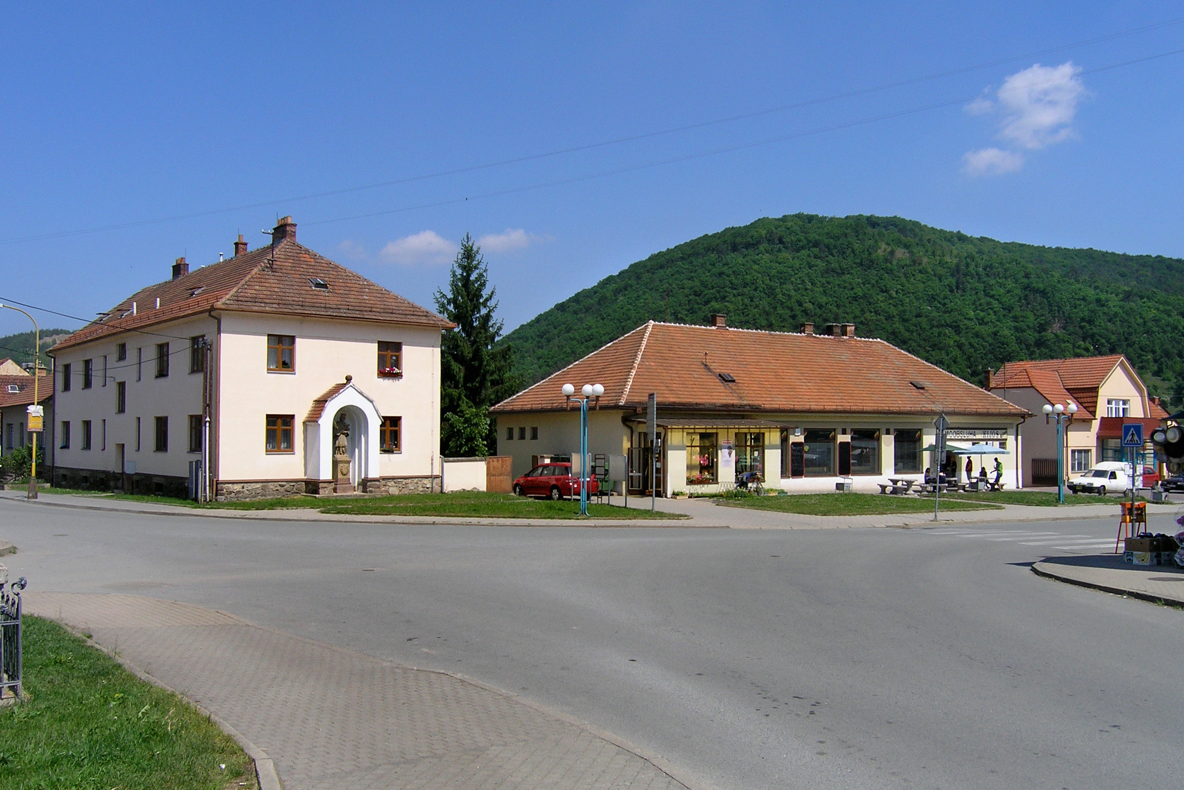 Komenského street in Předklášteří, Czech Republic